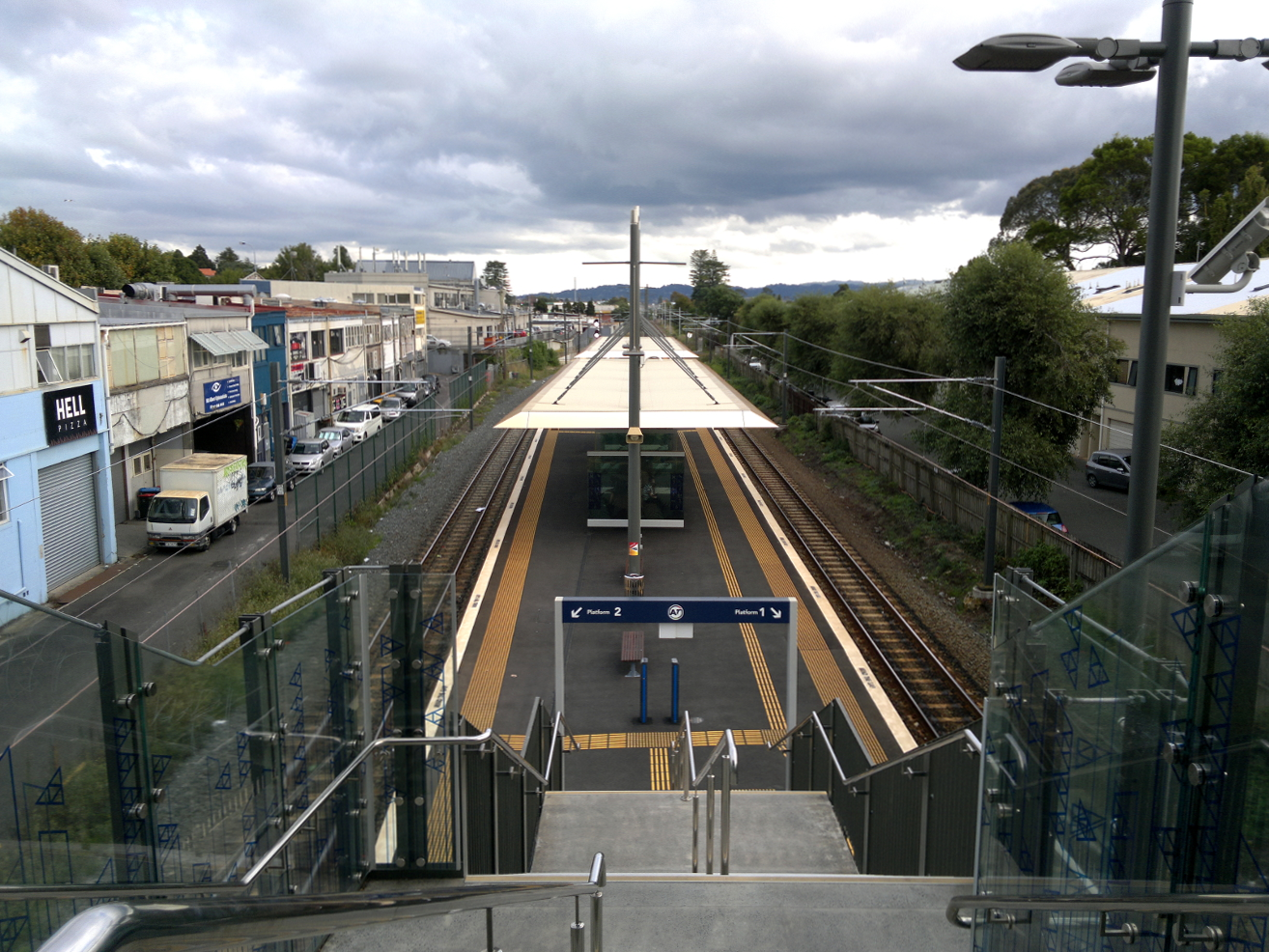 Platforms 1 and 2 of Mount Albert railway Station, as seen from the top of the station's concourse tower entrance.